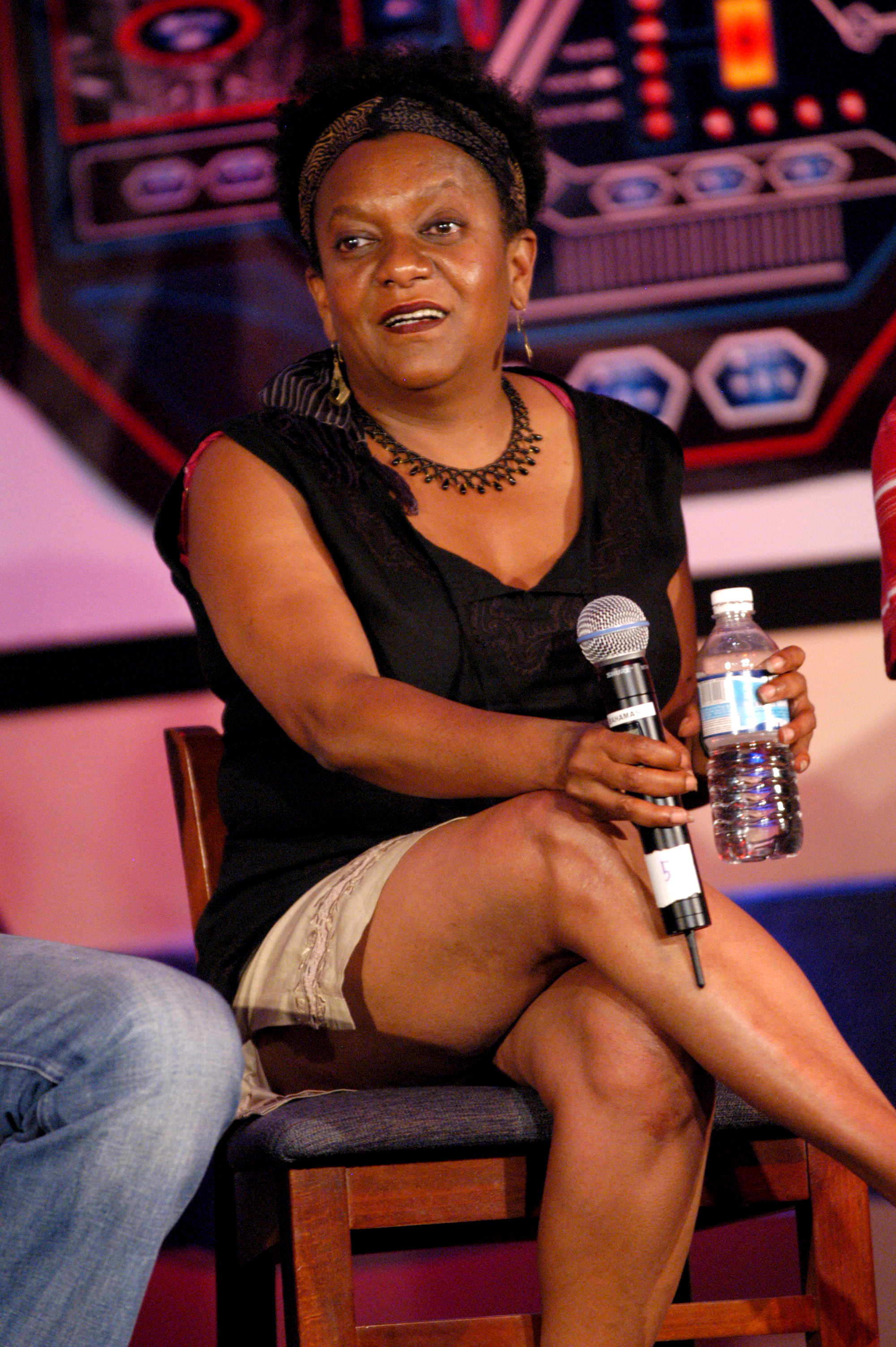 Lorena Gale. Canadian actress who has played a number of roles over the years.. Taken at a Sci-fi convention.